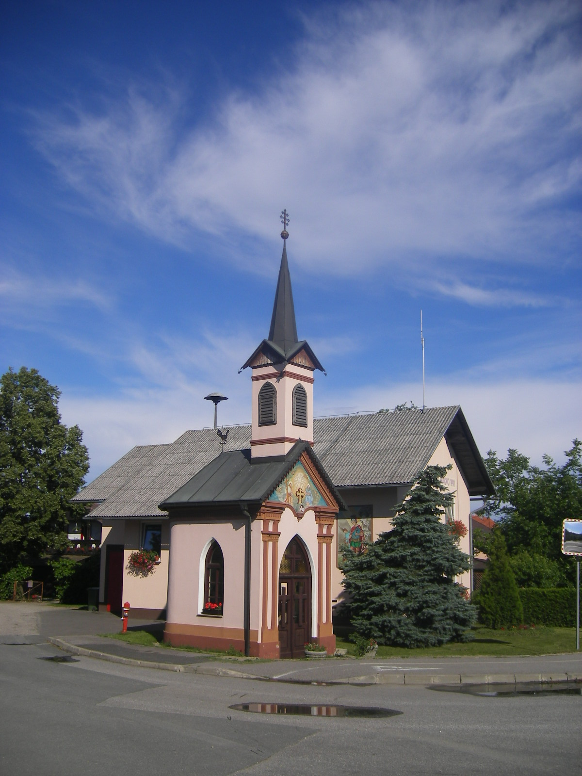 Šratovci. A chapel from the mid-19th century.[1]